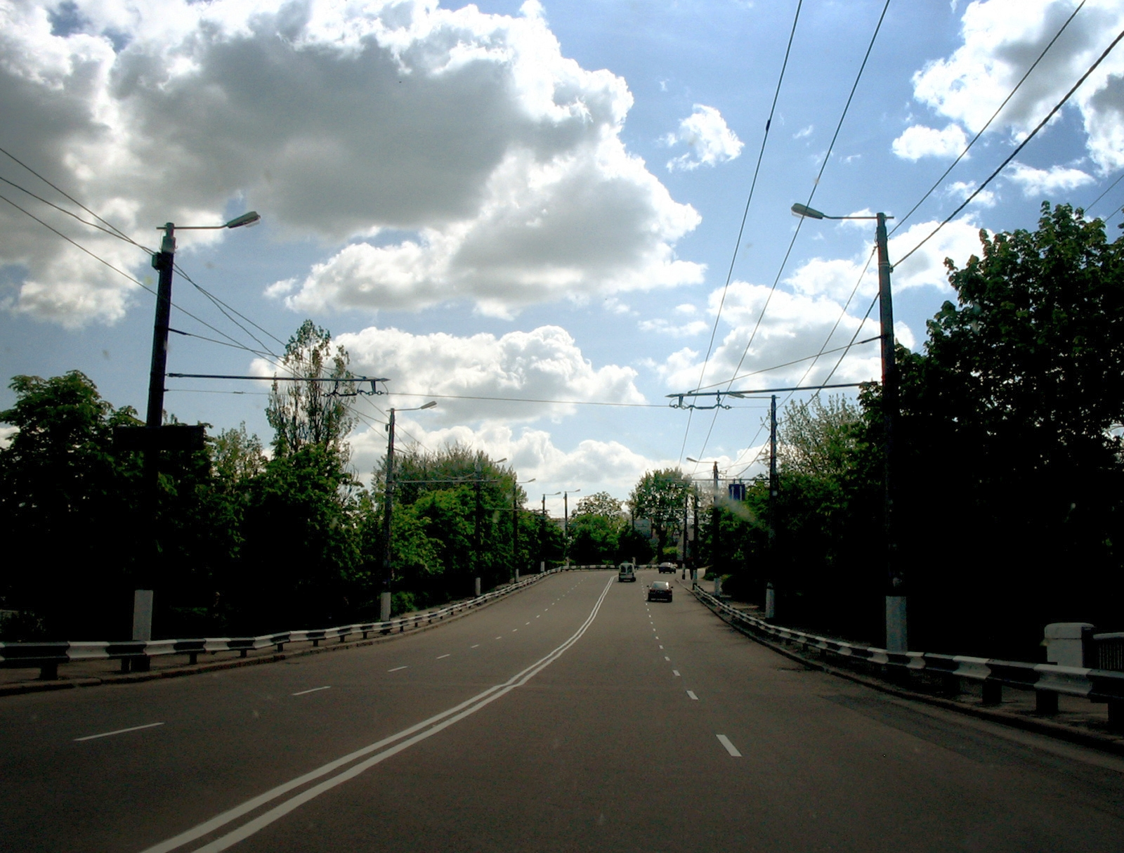 Chudnivskiy bridge in Zhytomyr